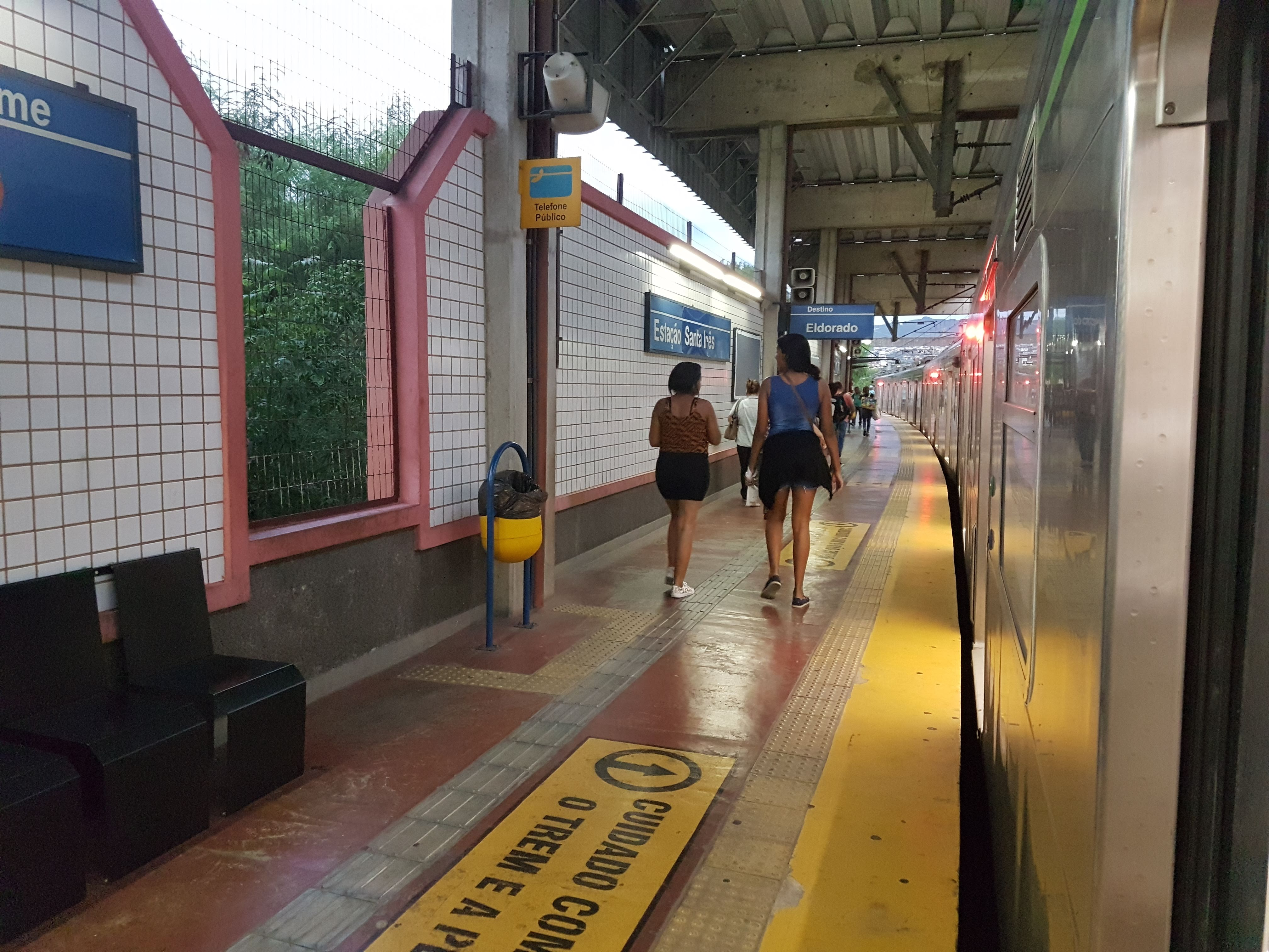 Santa Inês Station, in Belo Horizonte, Minas Gerais, Brazil.